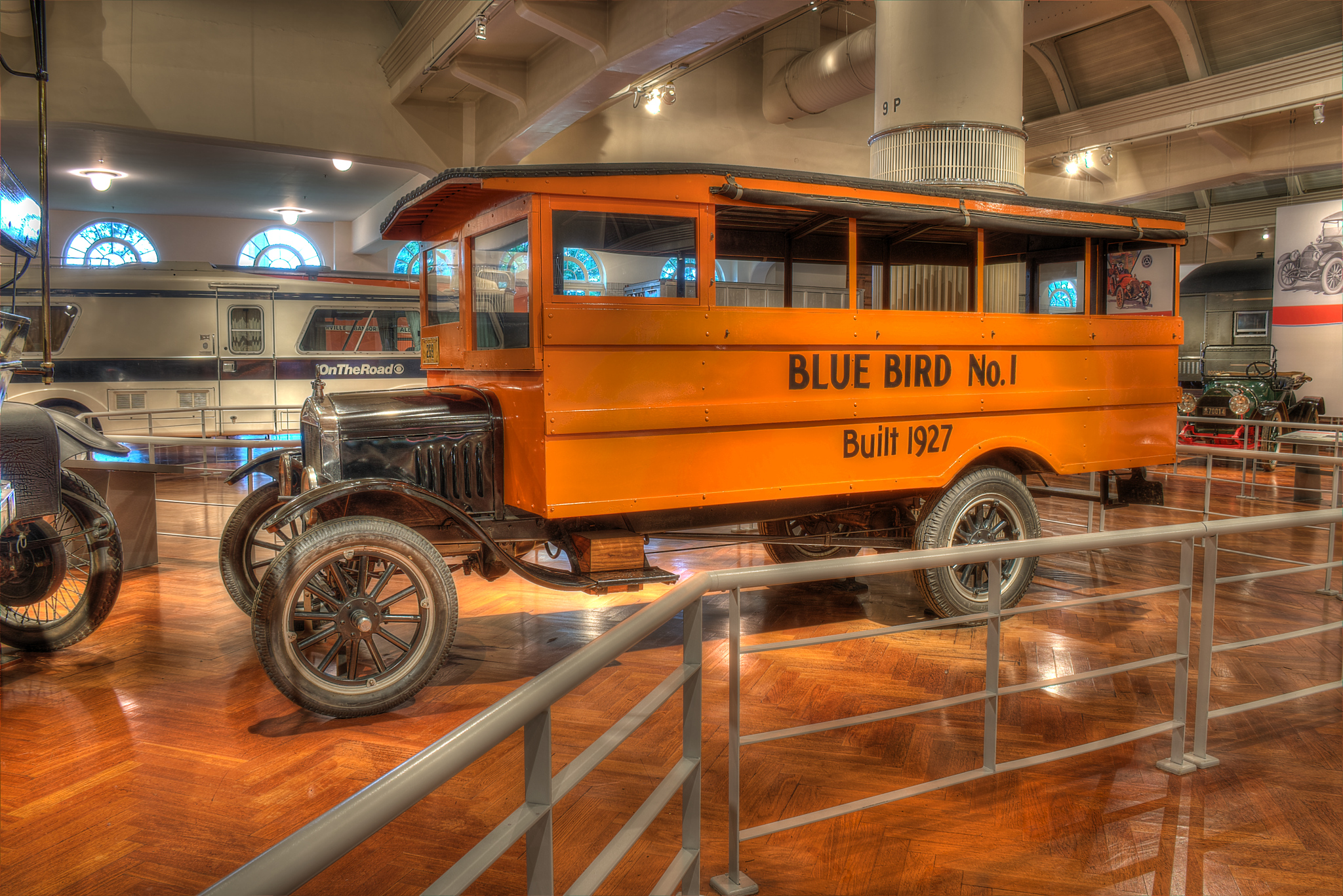 1927 Blue Bird school bus - possibly the oldest surviving school bus in America